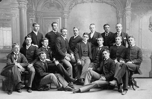 Photograph of the members of the 1888 delegation of Book and Snake senior society, Yale College, New Haven, Connecticut. Photograph courtesy of the Yale University Manuscripts & Archives Digital Images Database. Retouched by MarmadukePercy.